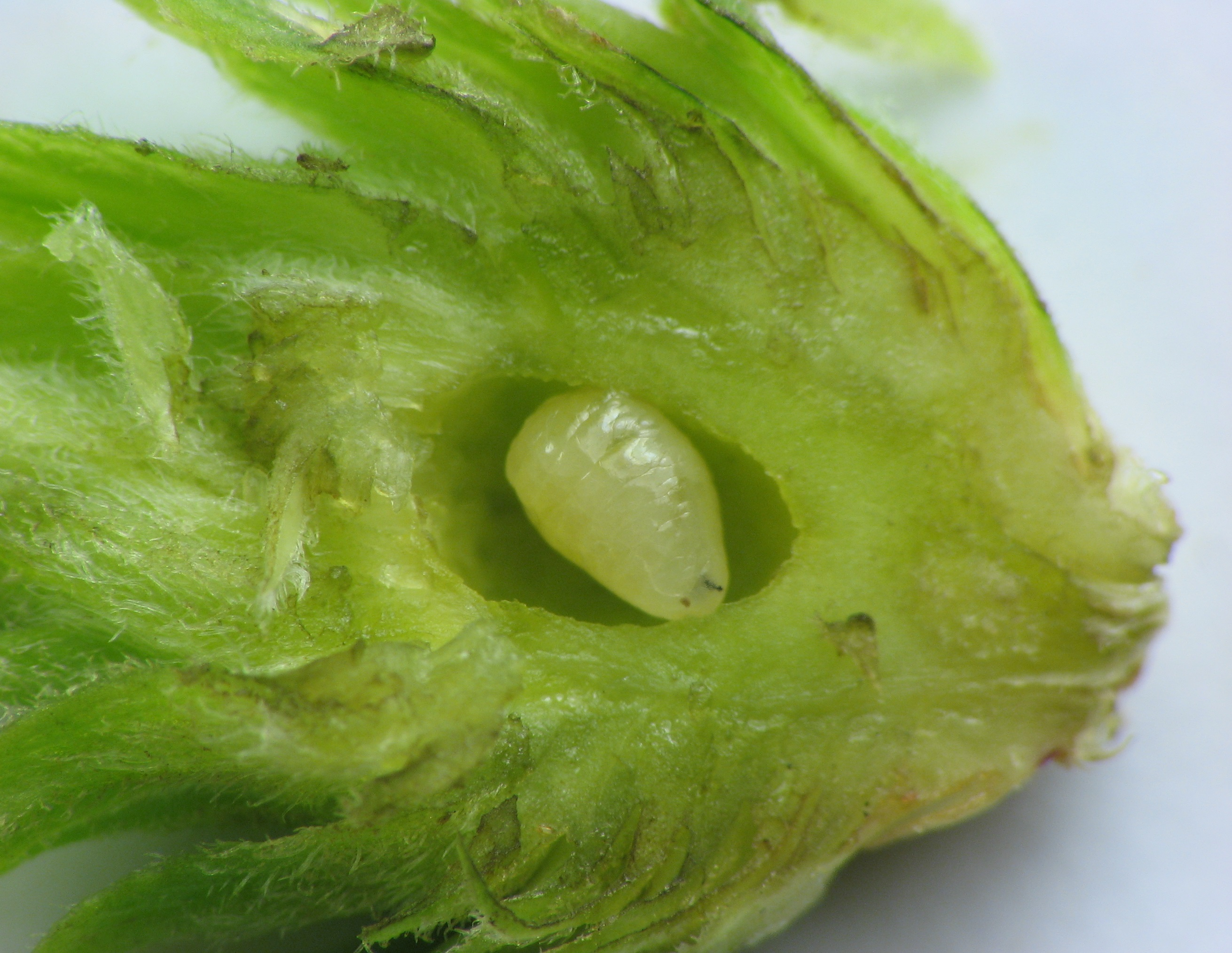 Larva of gall maker, Procecidochares atra, in gall in goldenrod. Horsham trail. Horsham, Montgomery County, Pennsylvania, USA.